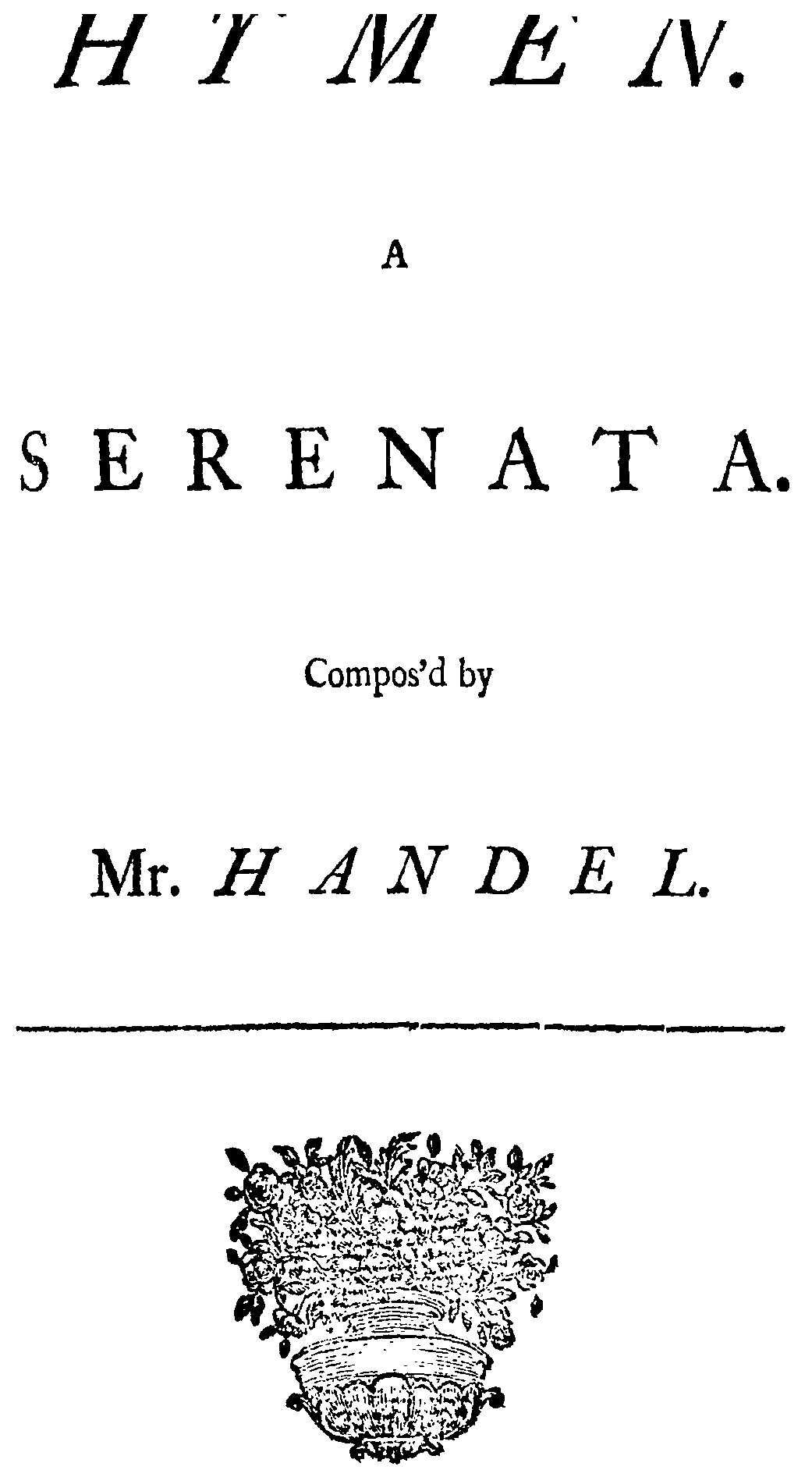 Georg Friedrich Händel - Imeneo - title page of the libretto - Dublin 1742?